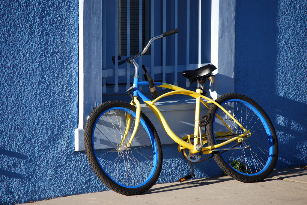 Beach Cruiser at Venice Beach, California